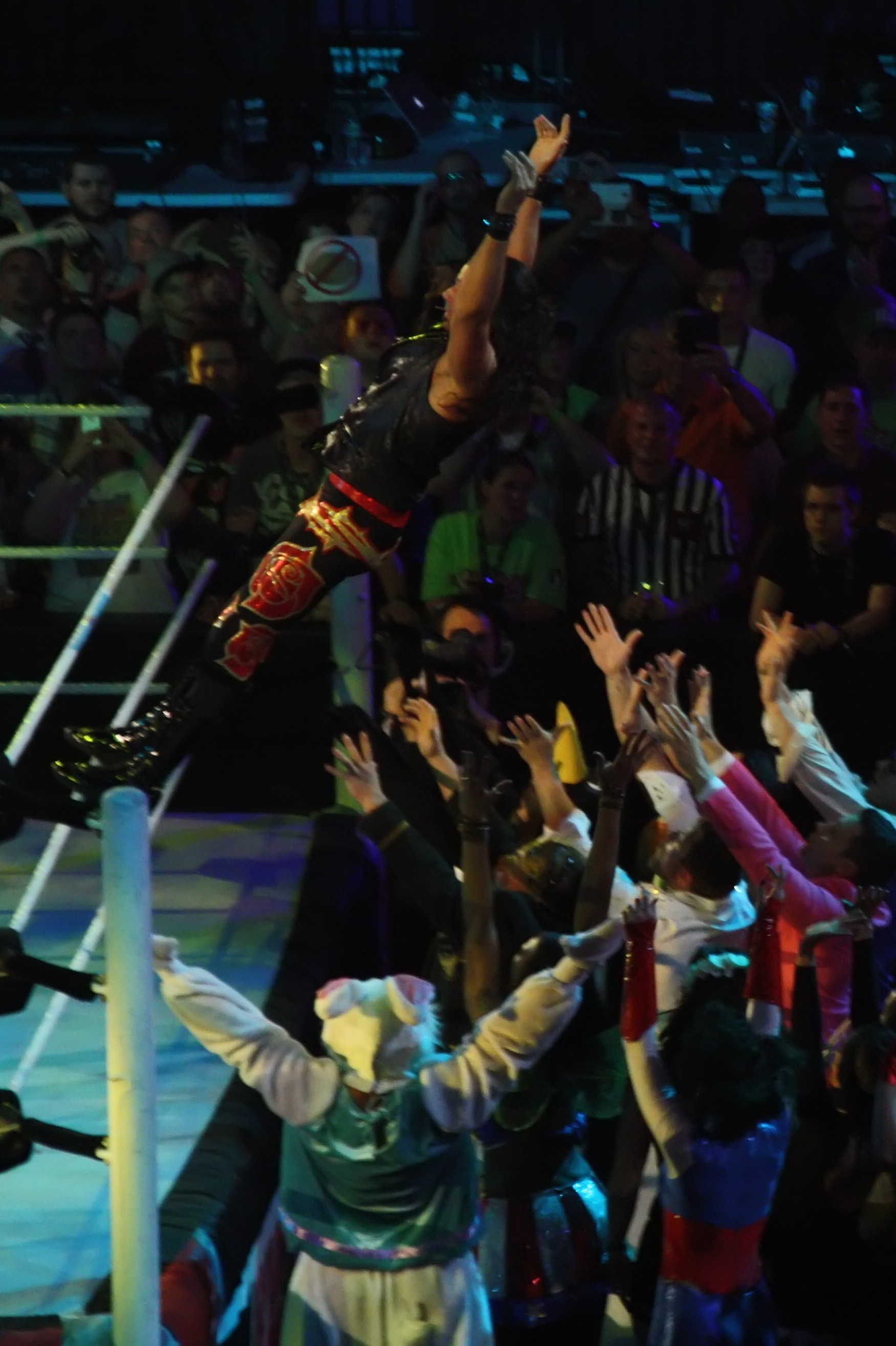 Adam Rose being caught by his "Rosebuds" during his entrance on Raw on 19 May 2014 at the O2 Arena in London, England. Cropped from original to remove audience.